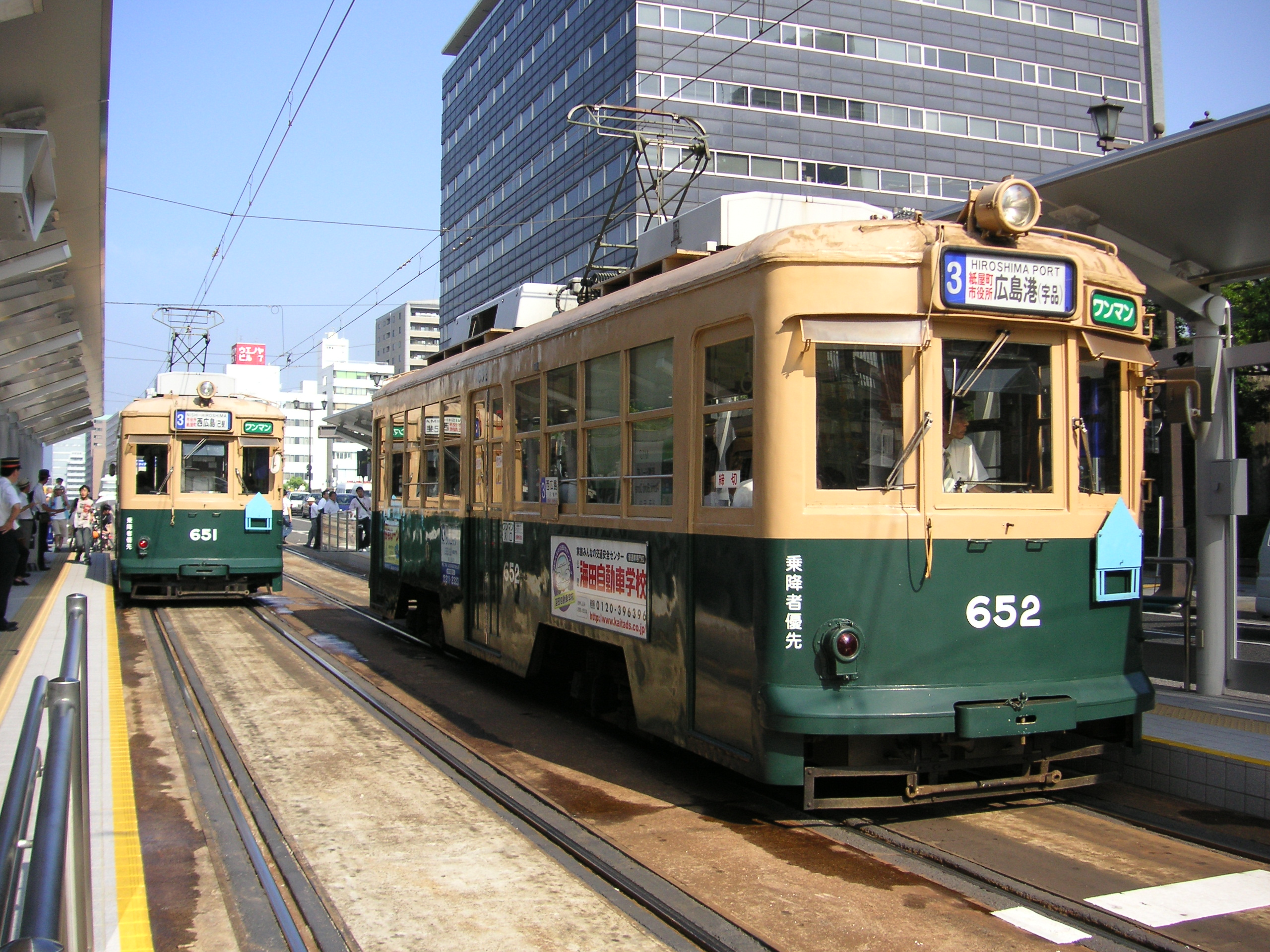 A-Bombed tramcar 651 and 652 at Hiroden Genbaku Dome-mae Station in 2006-08-06 A-Bomb memorial day